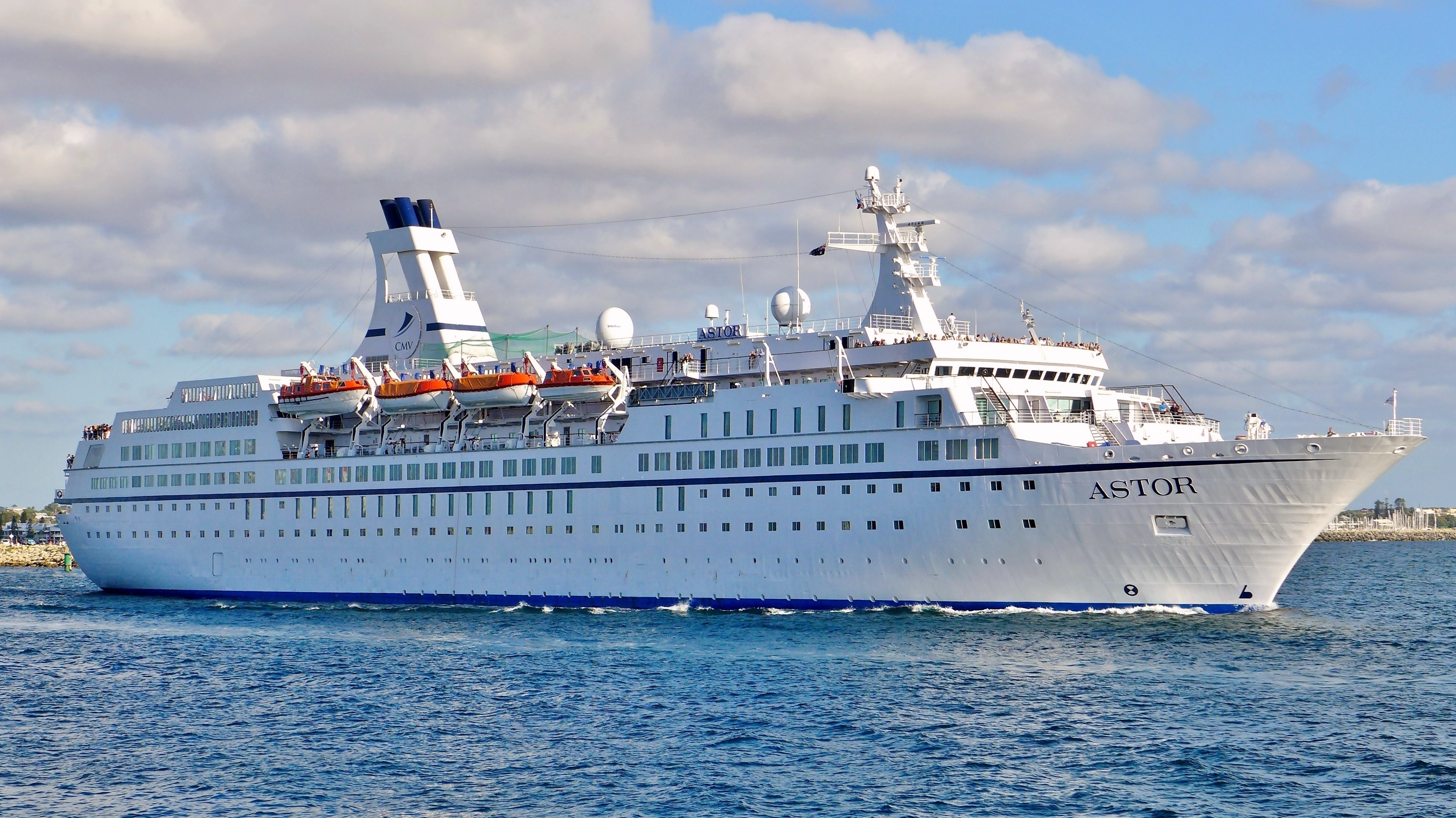 MS Astor departing from Fremantle Harbour, Western Australia, on a 5 night Coastal Explorer cruise to Esperance, Albany and return.